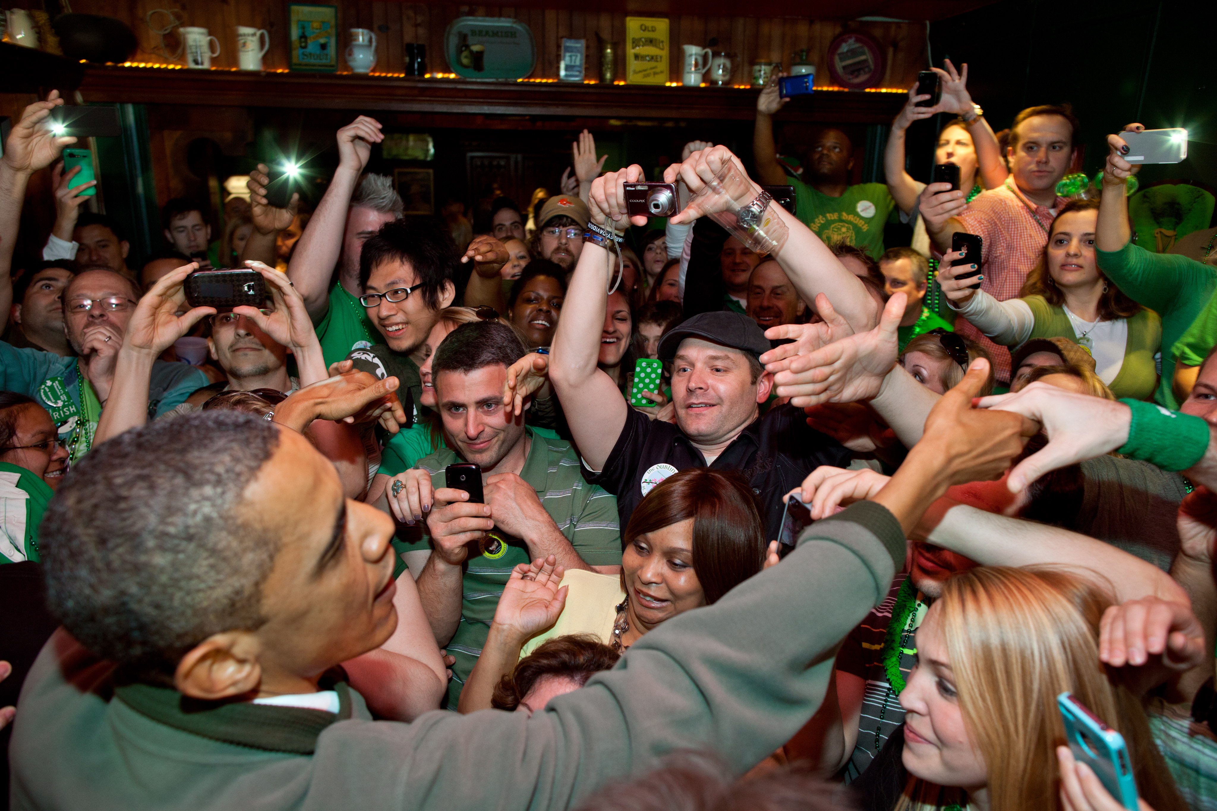 United States President Barack Obama meets people celebrating Saint Patrick's Day at the Dubliner, an Irish pub in Washington, D.C., on 17 March 2012. The President wears a green jacket to celebrate the Irish national holiday.